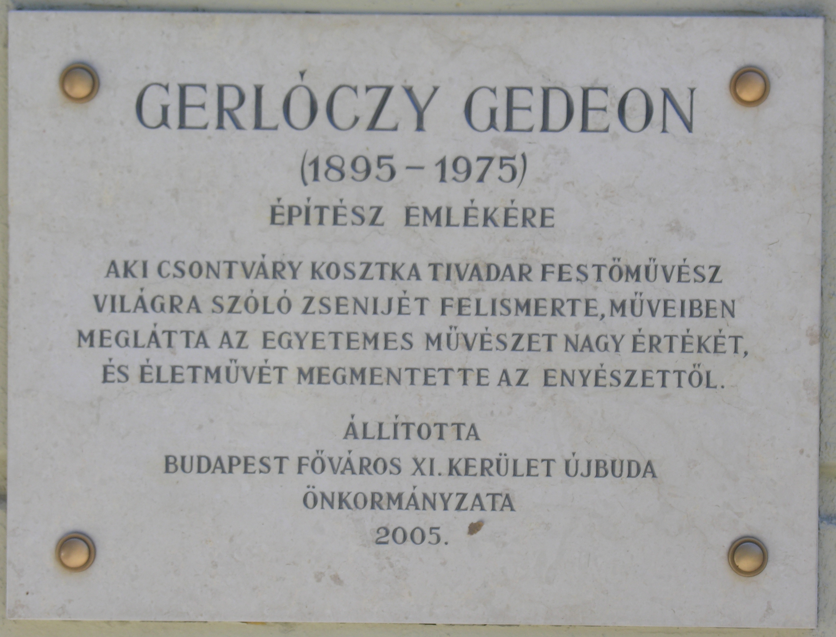 Commemorative plaque of Gedeon Gerlóczy in Budapest District XI, Bartók Béla Street No 36-38 (Bercsényi Street side)